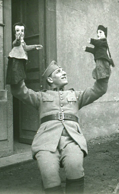 Georges Bazin smiling, holding permission is leaning against a window sill. Arms raised, as an actor, he dress in his left hand puppet Guignol and in his right hand Gnafron which are explained. He brings to life the puppets.